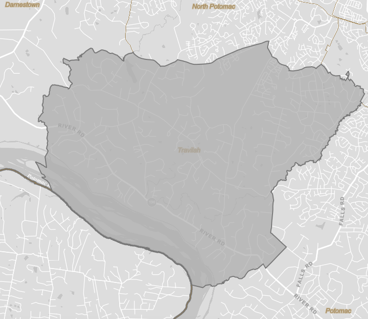 Map of Travilah CDP, Maryland cropped from US Census